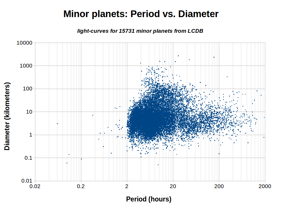 Rotation period vs. Diameter distribution for minor planets. Light-curve data for 15,731 minor planets obtained from the Light Curve Data Base (LCDB) as of September 2016.